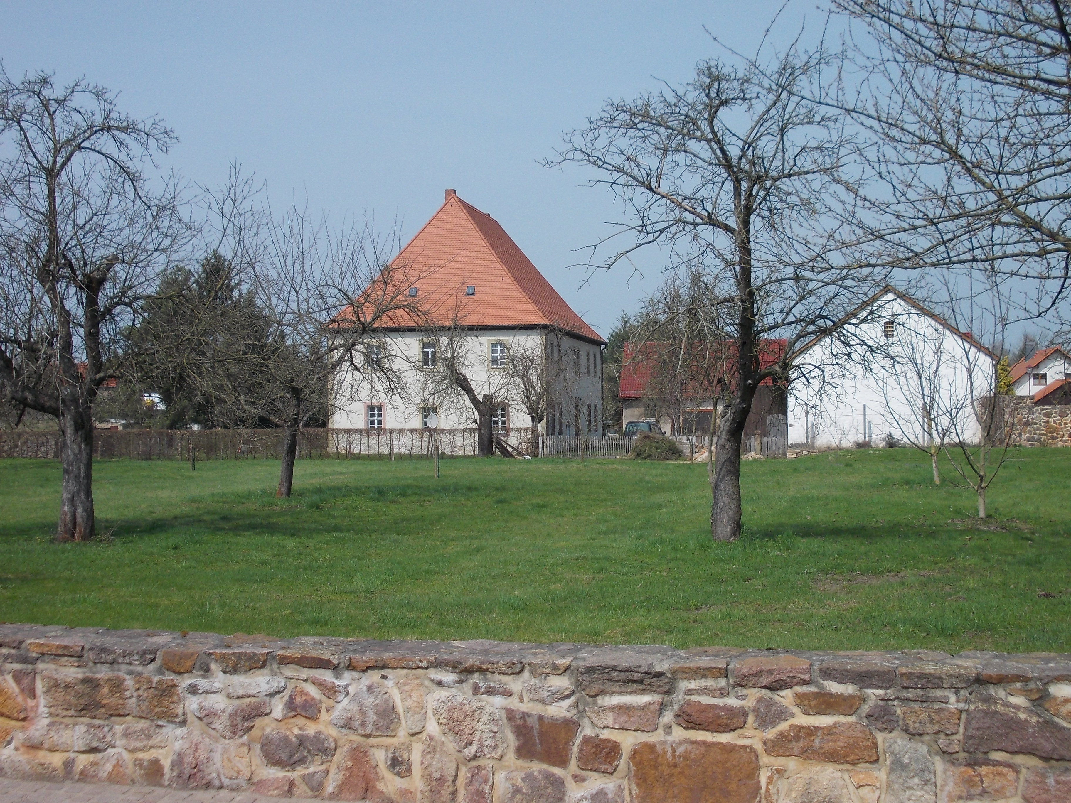 Altleisnig rectory (Leisnig, Mittelsachsen district, Saxony)